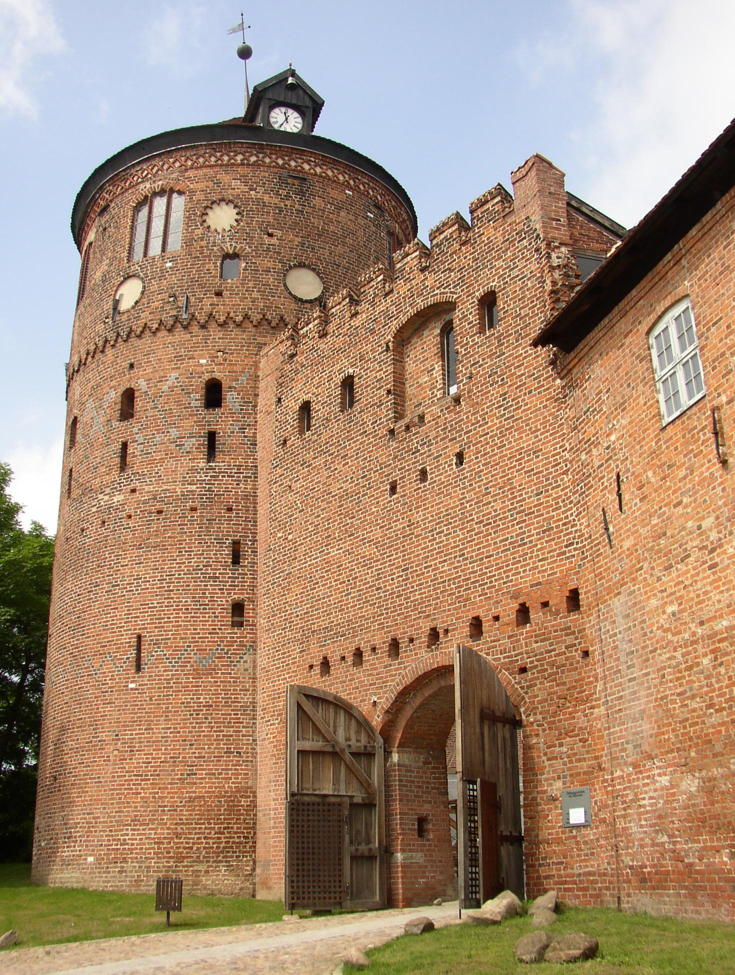 Castle in Neustadt-Glewe in Mecklenburg-Western Pomerania, Germany